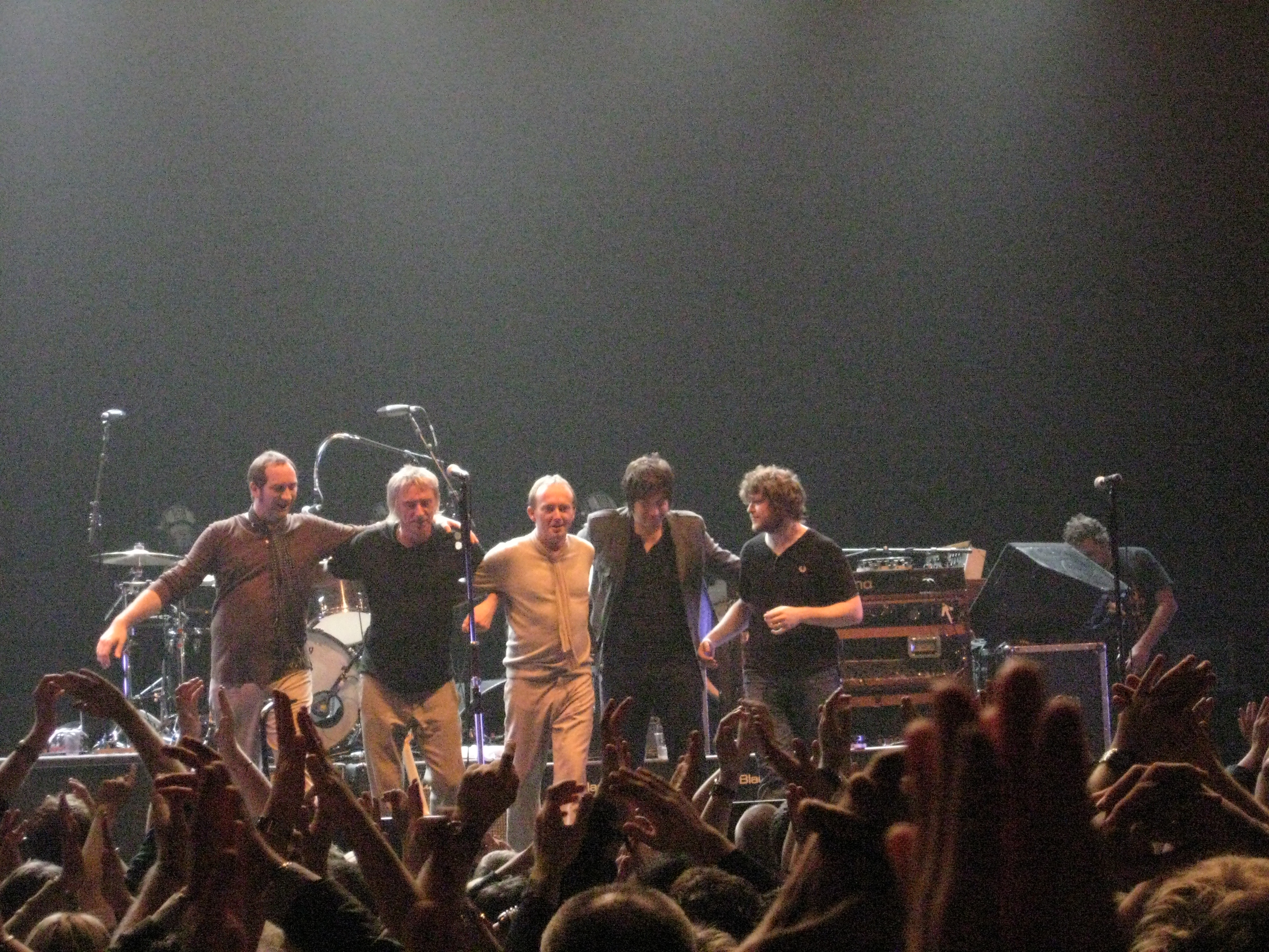 Paul Weller CIA Cardiff November 2008 Band lineup